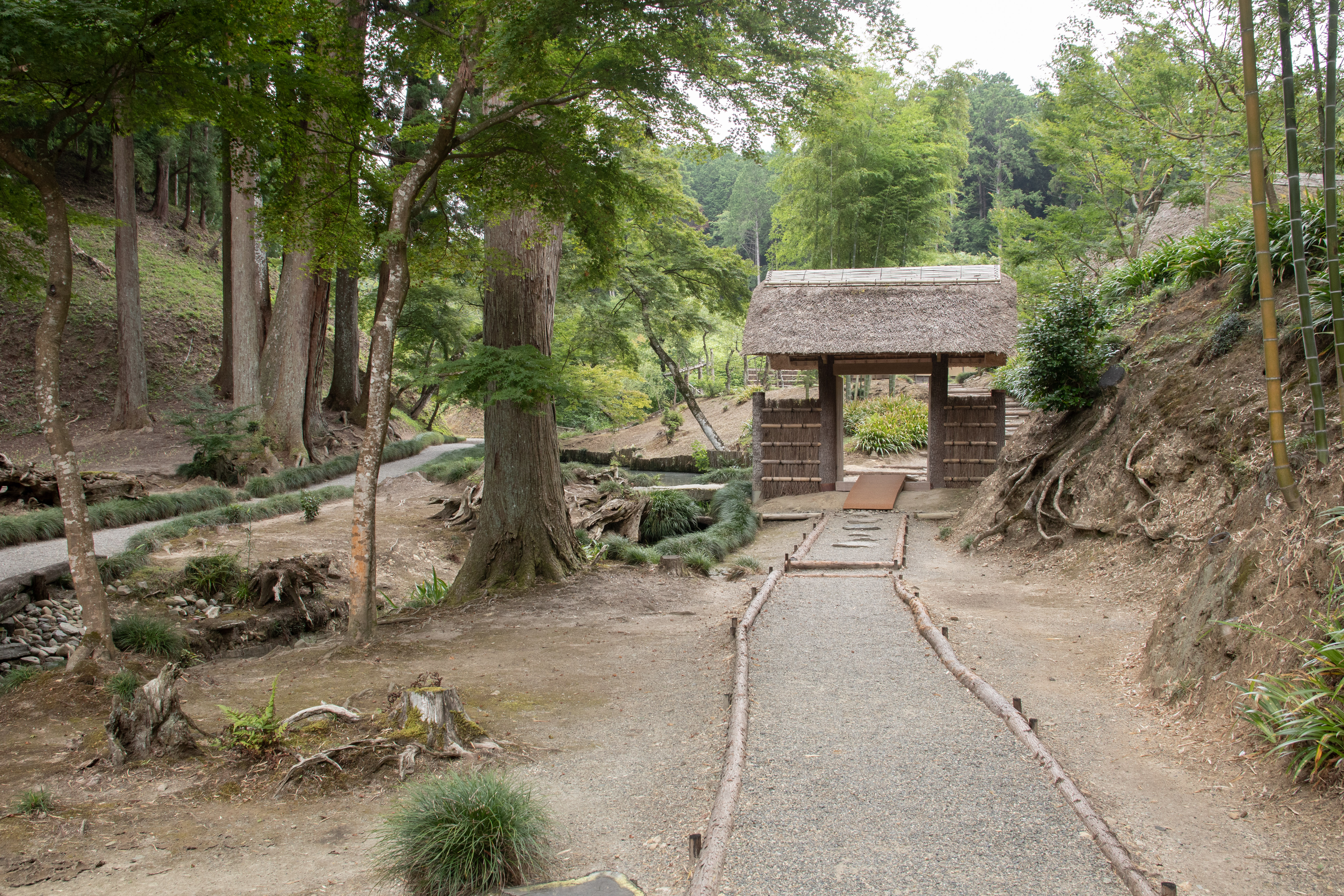 Seizanso(西山荘 せいざんそう), Hitachi-Ota City, Ibaraki, Japan